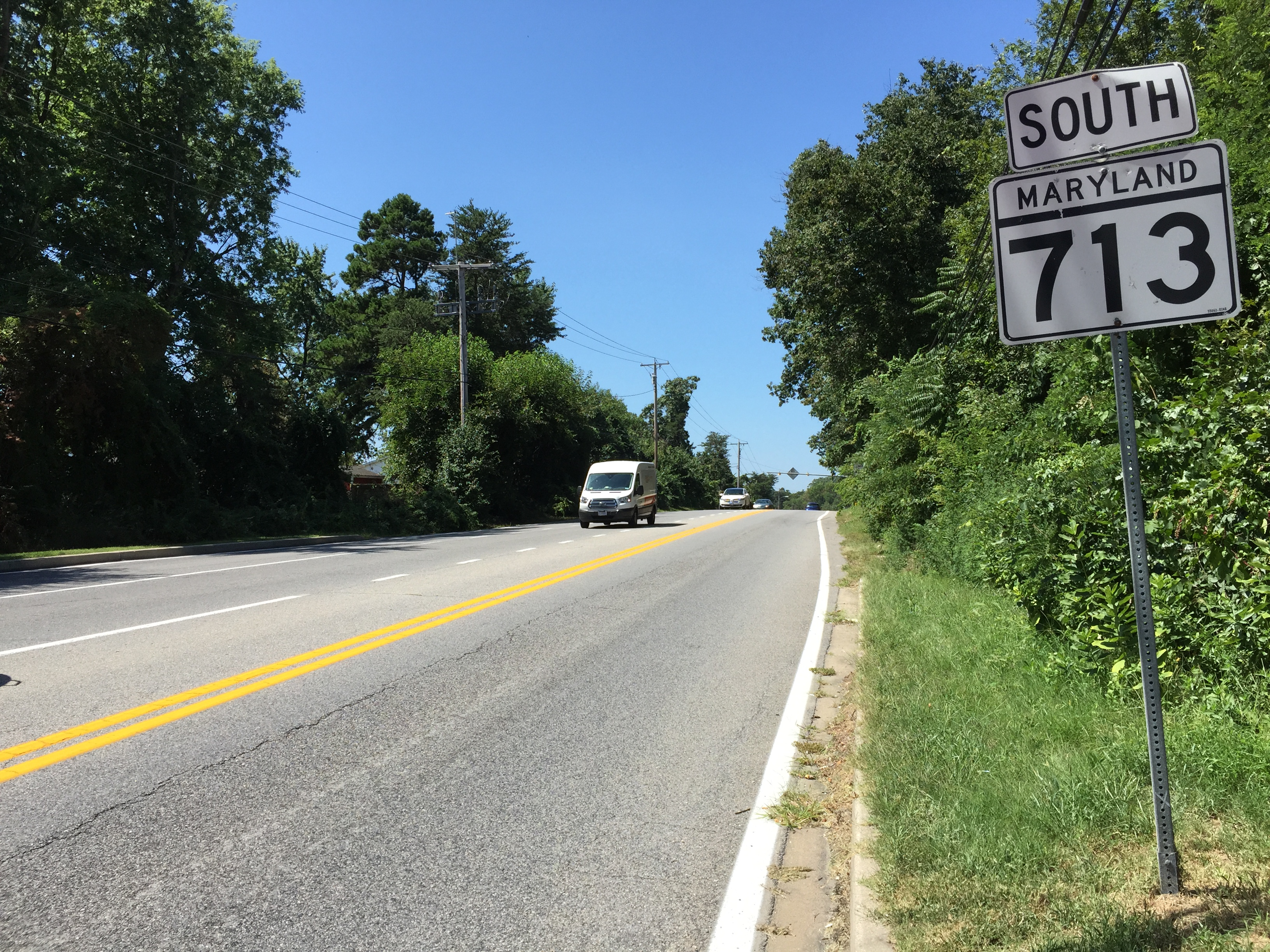 View south along Maryland State Route 713 (Ridge Road) at Ridgewood Road in Severn, Anne Arundel County, Maryland